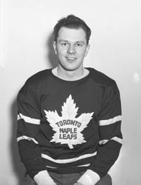 Bud Poile wearing a Toronto Maple LEafs uniform.